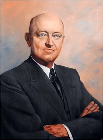 Painting of Frank Crowe, Superintendent of Six Co., Inc. Museum Collection.